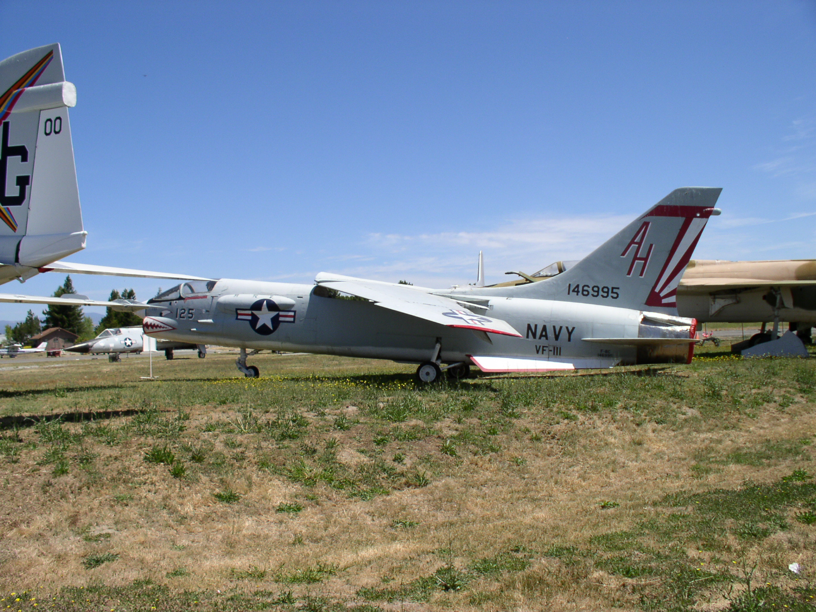 Chance Vought F-8 Crusader. Taken in Pacific Coast Air Museum, Santa Rosa, California, USA. Note: The plane is a Vought F-8C Crusader (up to 1962 F8U-2). BuNo. 146995 was located for 20 years in the 19th Ave. Park in San Francisco/CA. It was saved, restored, and painted in the colours of fighter squadron VF-111 Sundowners, Carrier Air Wing 16, during the 1967/68 deployment on USS Oriskany (CVA-34).(see [1])